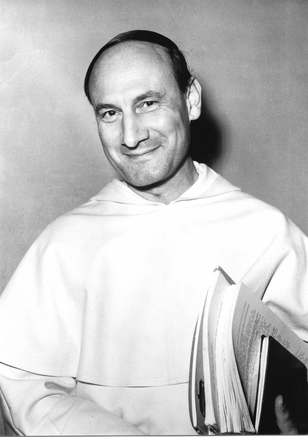 Georges Pire (1910—1969) was a Belgian Dominican; laureate of the Nobel Peace Prize (1958).